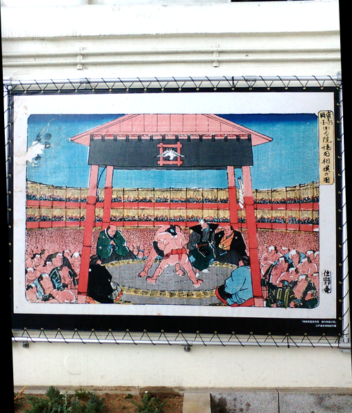 Reproduce of Sumo by Hiroshige at Sumida River terrace, Tokyo